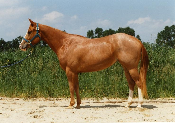 Quarter Horse, Red Chestnut (Sorrel) Roan